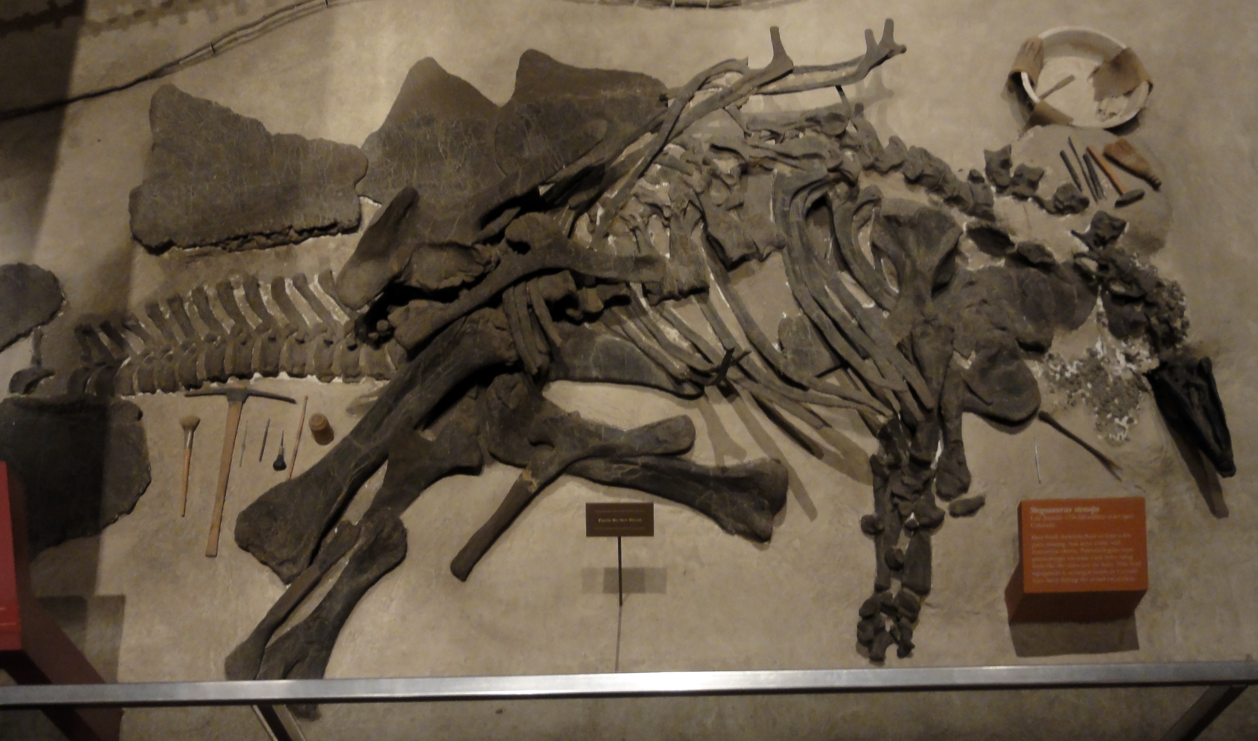 2010/11/24 Viewing in National Museum of Natural History.